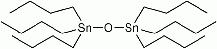 Chemical structure of tributyltin oxide